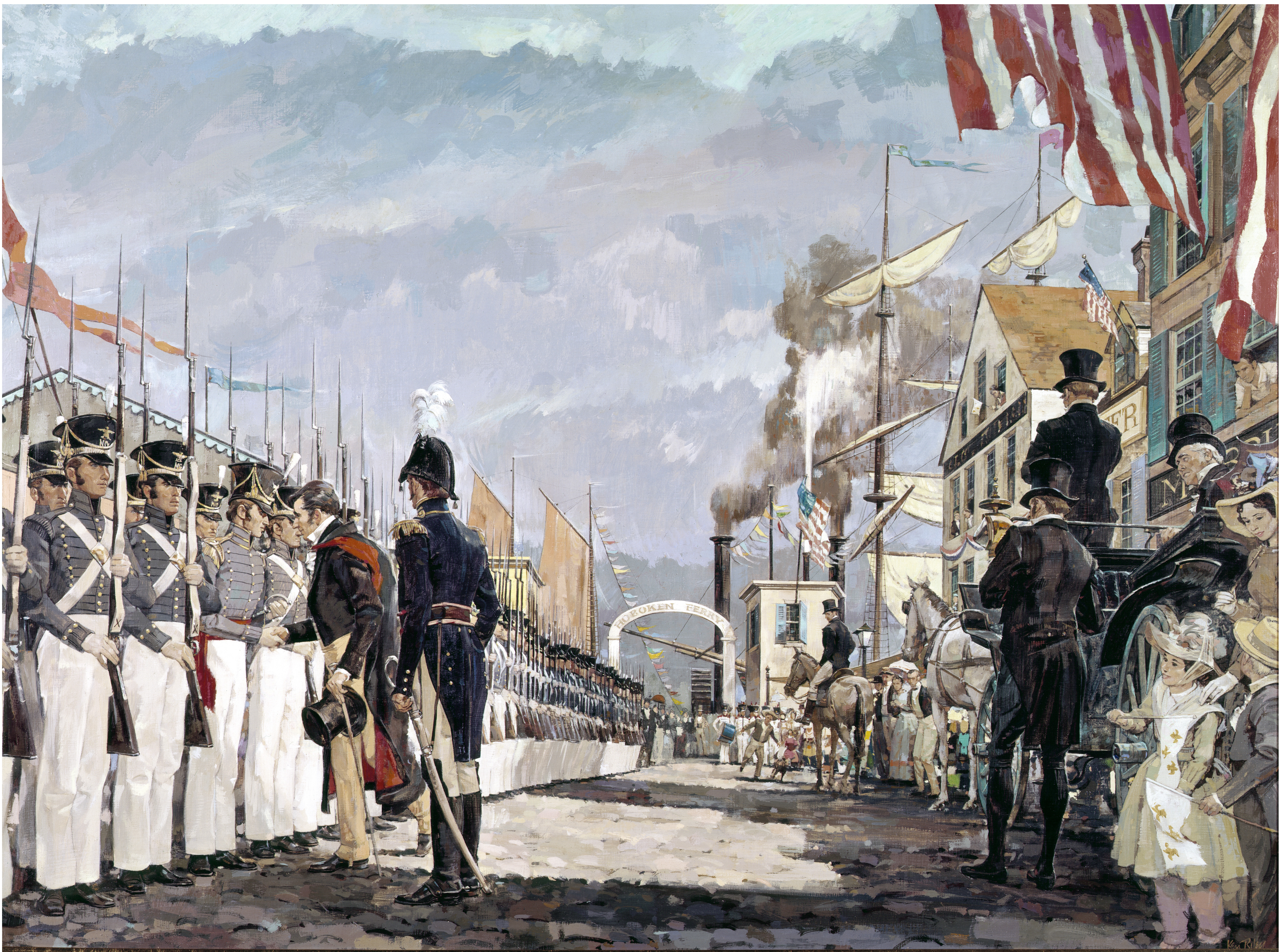 Lafayette and the National Guard by Ken Riley for the state of New York, 1825. New York City, New York, July 14, 1825 -- The visit of the Marquis de Lafayette to the U.S., in 1824-25, was in every sense a triumphal procession. The 2d Battalion, 11th New York Artillery, was one of the many militia commands turned out in welcome. This unit decided to adopt the title National Guard, in honor of Lafayette's celebrated Garde Nationale de Paris. The Battalion, later the 7th Regiment, was prominent in the line of march on the occasion of Lafayette's final passage through New York en route home to France. Taking note of the troops named for his old command, Lafayette alighted from his carriage, walked down the line, clasping each officer by the hand as he passed. National Guard was destined to become the name of the U.S. militia.